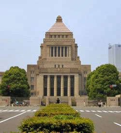 Japanese National Diet Building, Place: View from main entrance; Enhancements: digitally color corrected